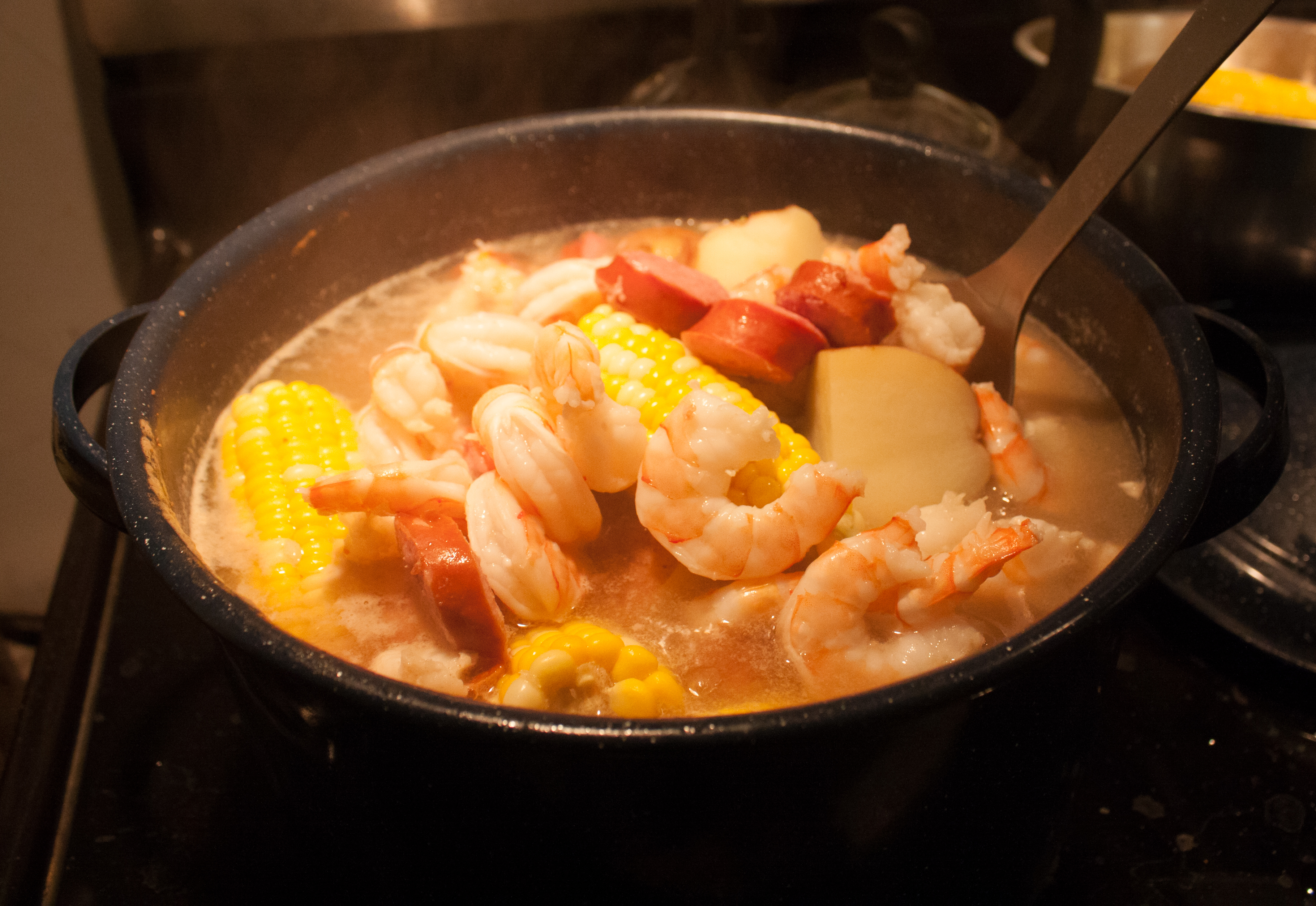 Shrimp boil, or Lowcountry Frogmore Stew, is a traditional dish from the southeast coast of the United States which consists of shrimp, corn on the cob, sausage, and red potatoes.